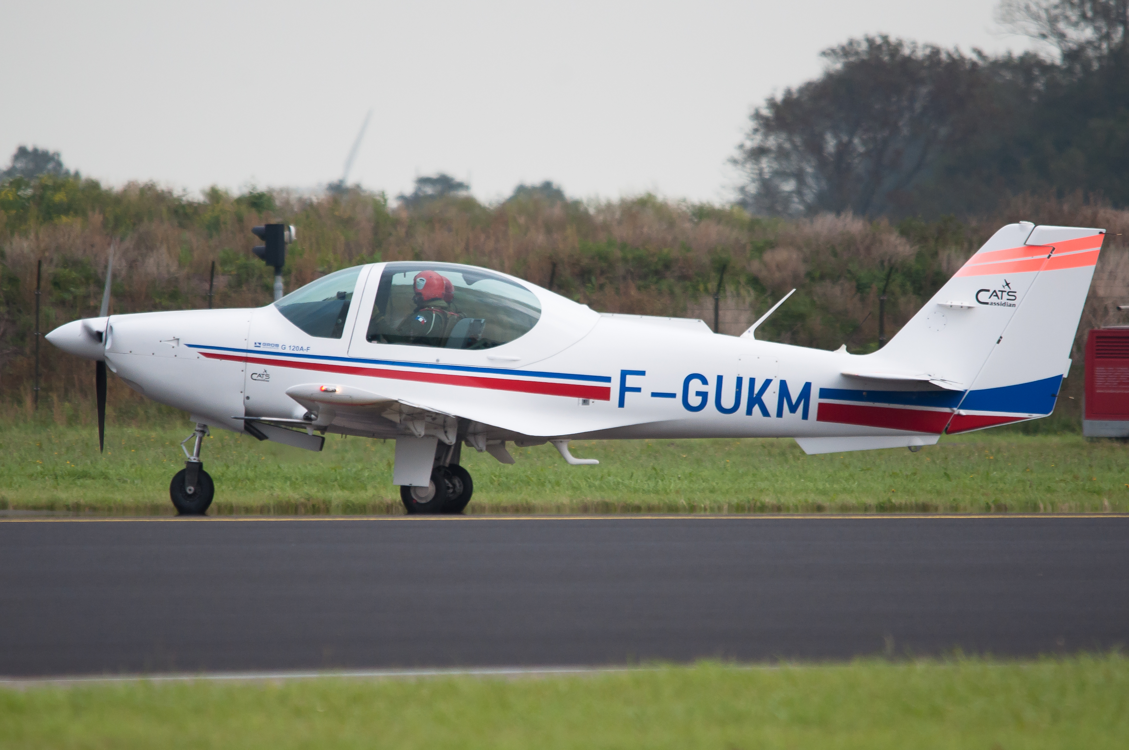 French AF Grob 105-A at Leeuwarden airshow